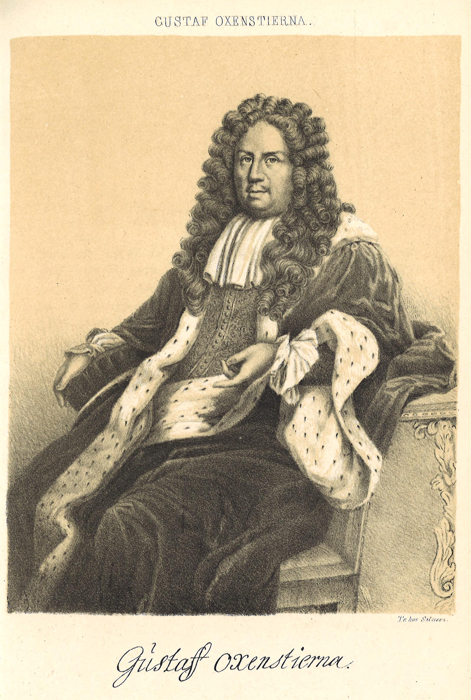 Gustaf Oxenstierna (1626–1693), Swedish officer, senator and "" (chairman of the estate of nobility).